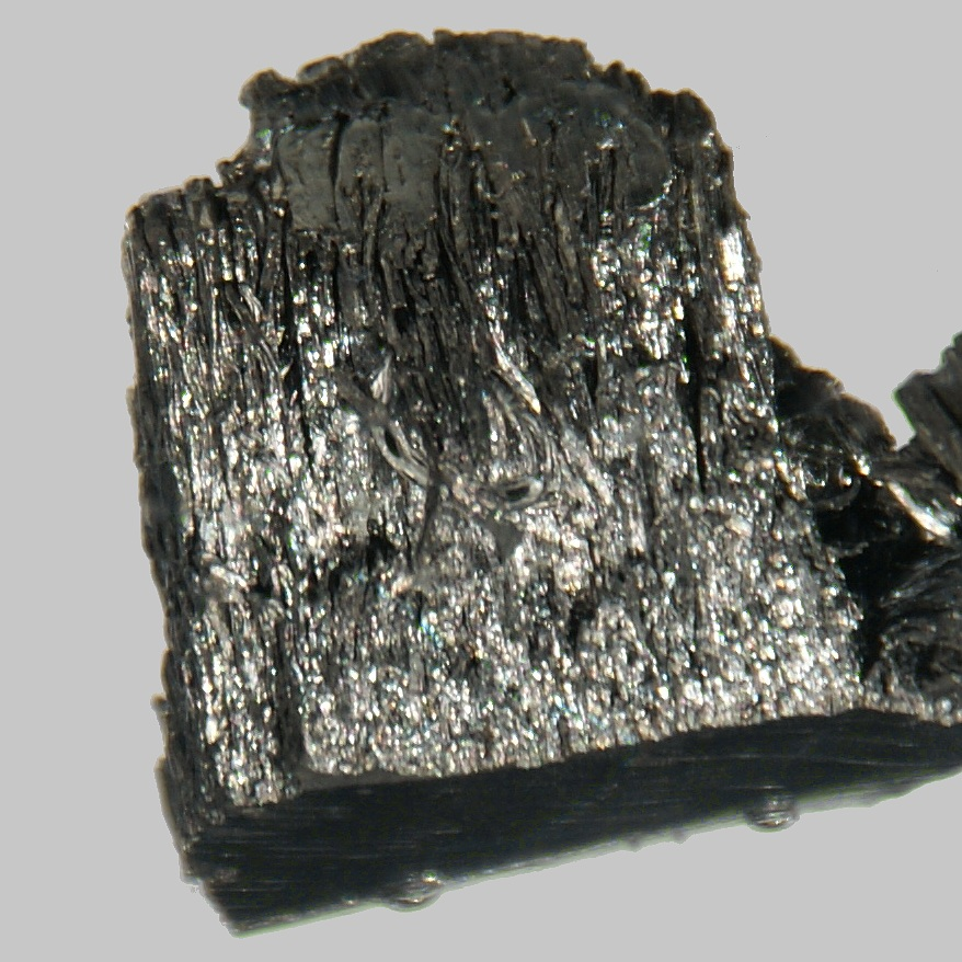 Thulium is the least abundant of the stable lanthanoids. Its extraction is very extensive, so it is not often used and doesn't have any important application so far.